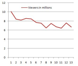 A graph created on Microsoft Excel to show the viewers for the fifth series of Doctor Who.